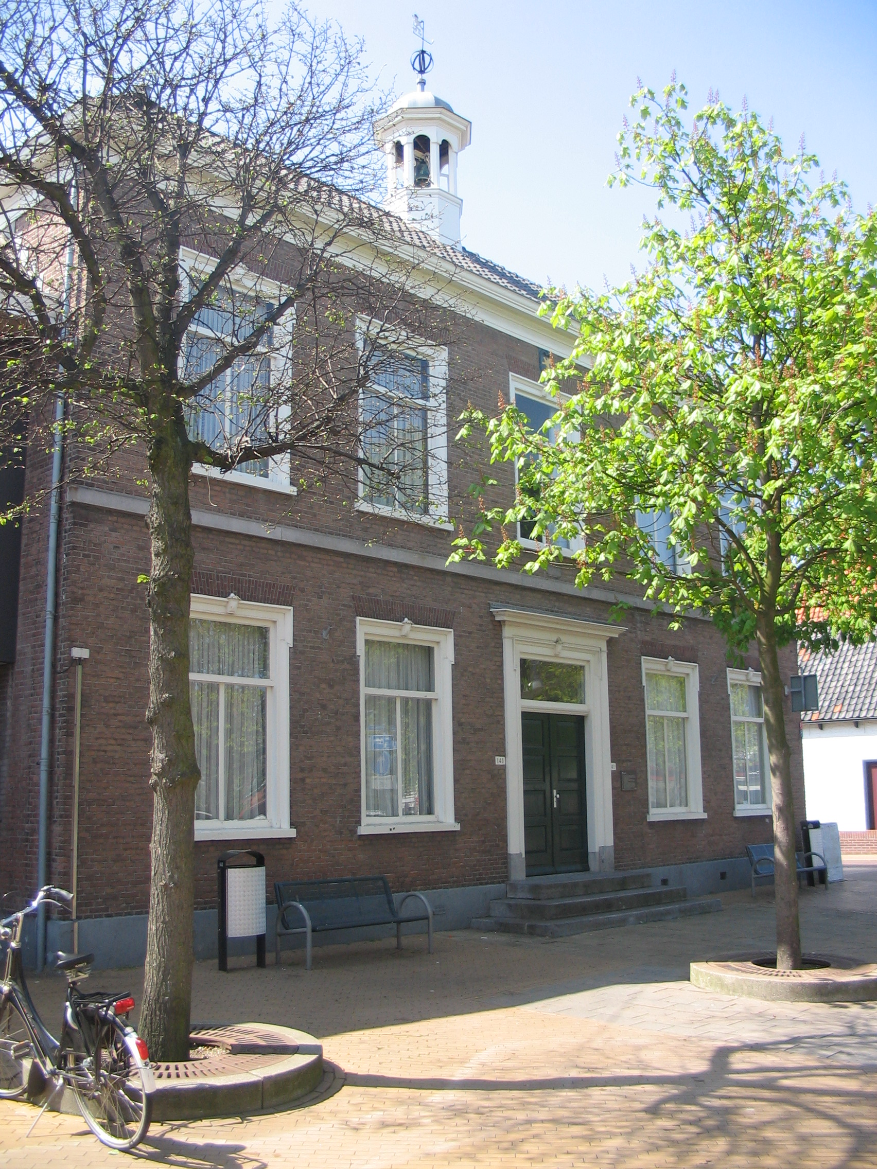 Old city hall of 's-Gravenzande, the Netherlands, 19th century. It's a rijksmonument.